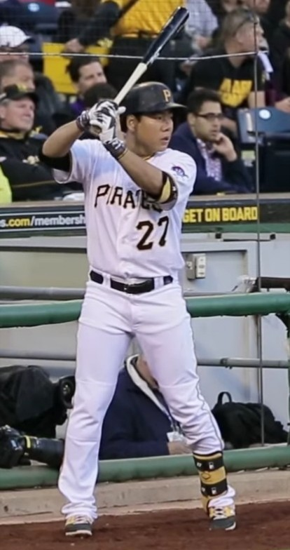 Jung-ho Kang hitting in a game